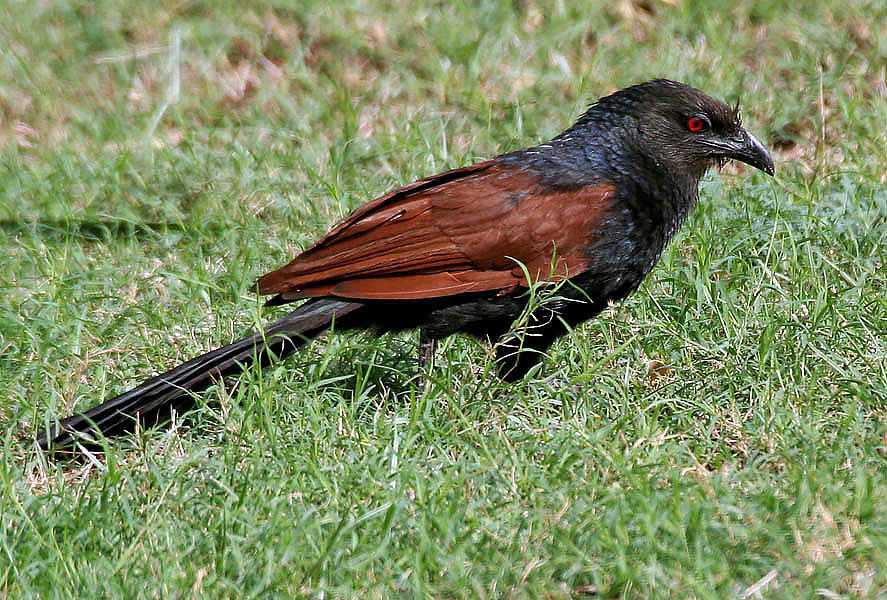 Greater Coucal or the Crow Pheasant Centropus sinensis in Hyderabad, India.